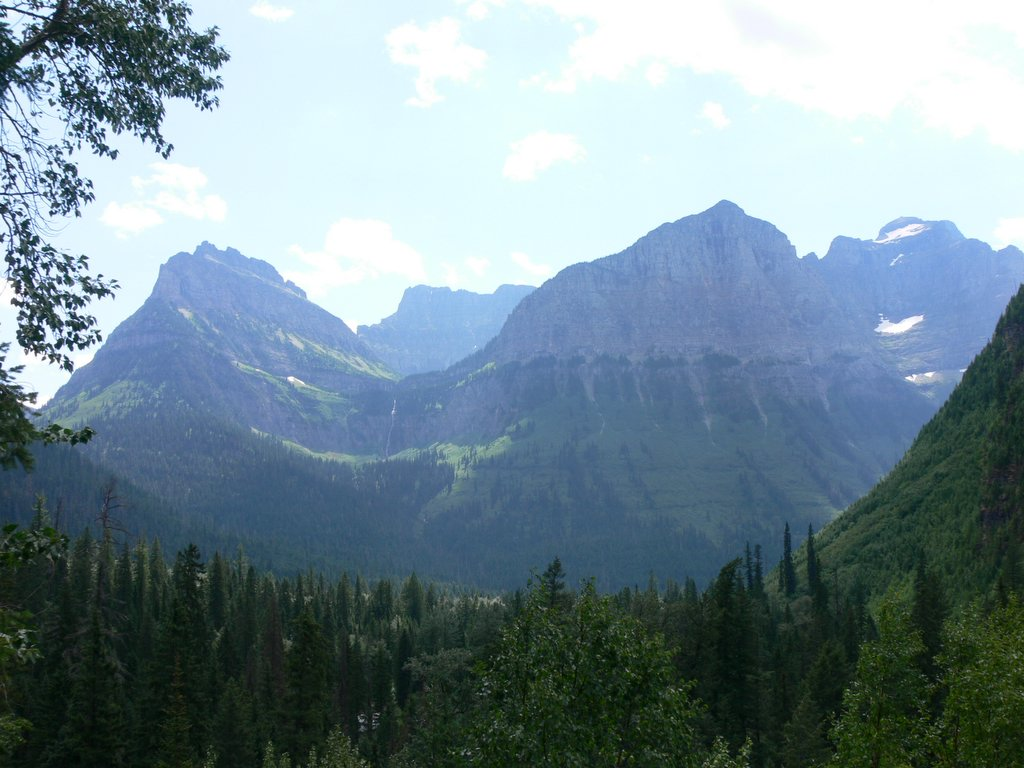 Glacier National Park